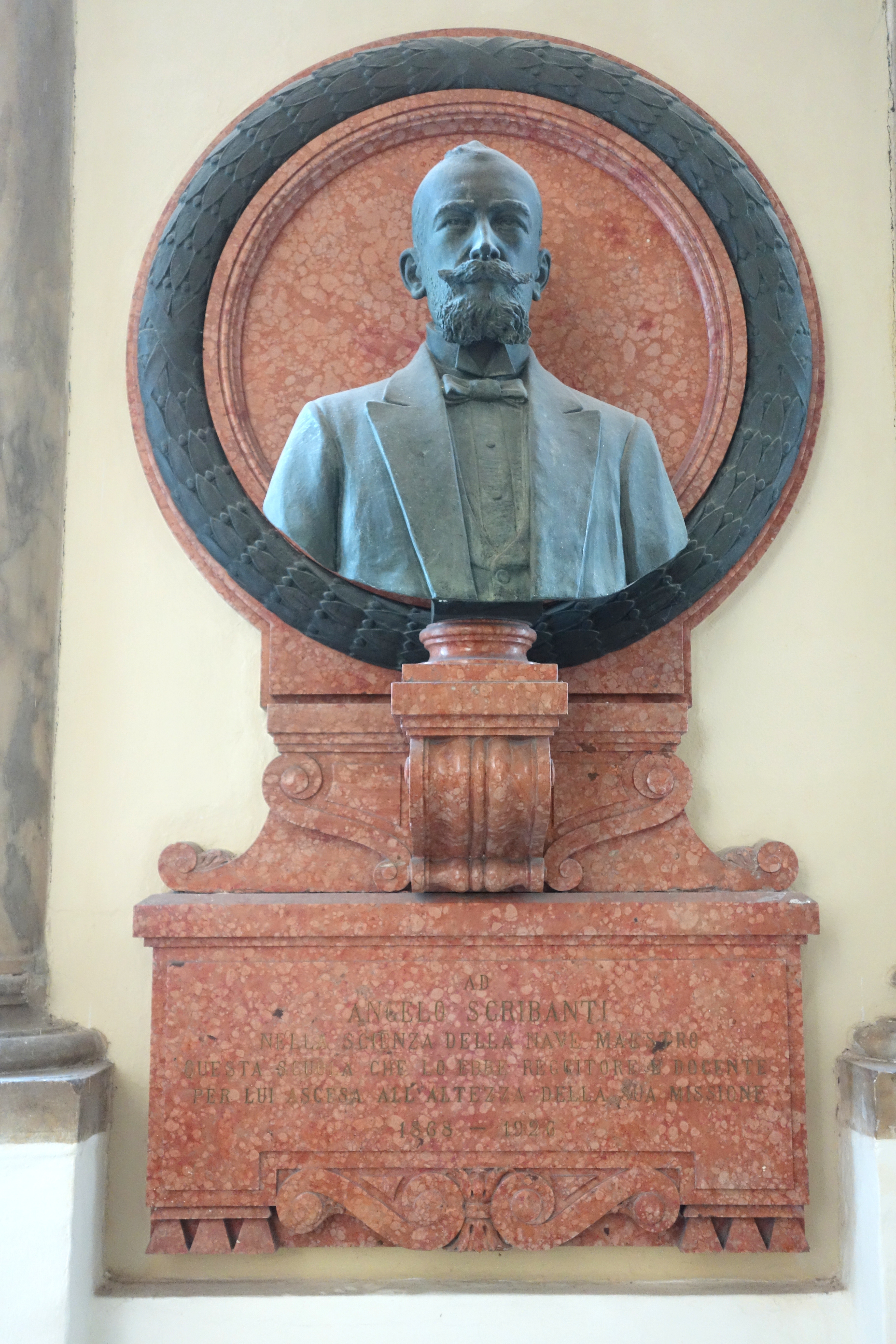 Angelo Scribanti memorial - Villa Giustiniani Cambiaso - Via Montallegro, 1, Genoa, Italy.